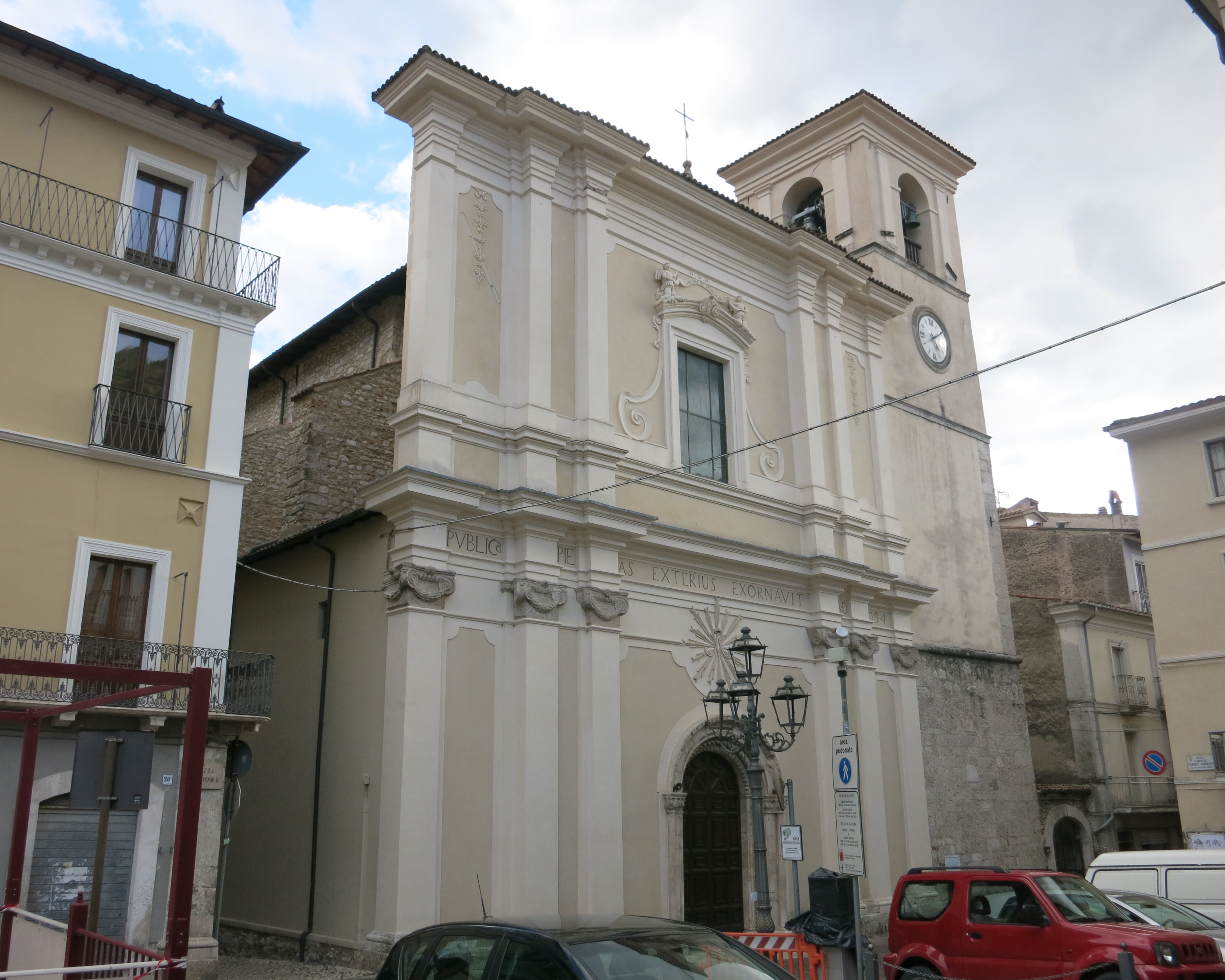 Collegiate church of Santa Maria Assunta, the cathedral of Antrodoco (province of Rieti, central Italy)